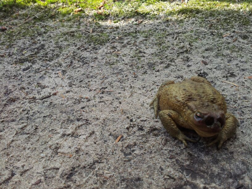 Bufo bufo parasitized by Lucilia bufonivora larvea